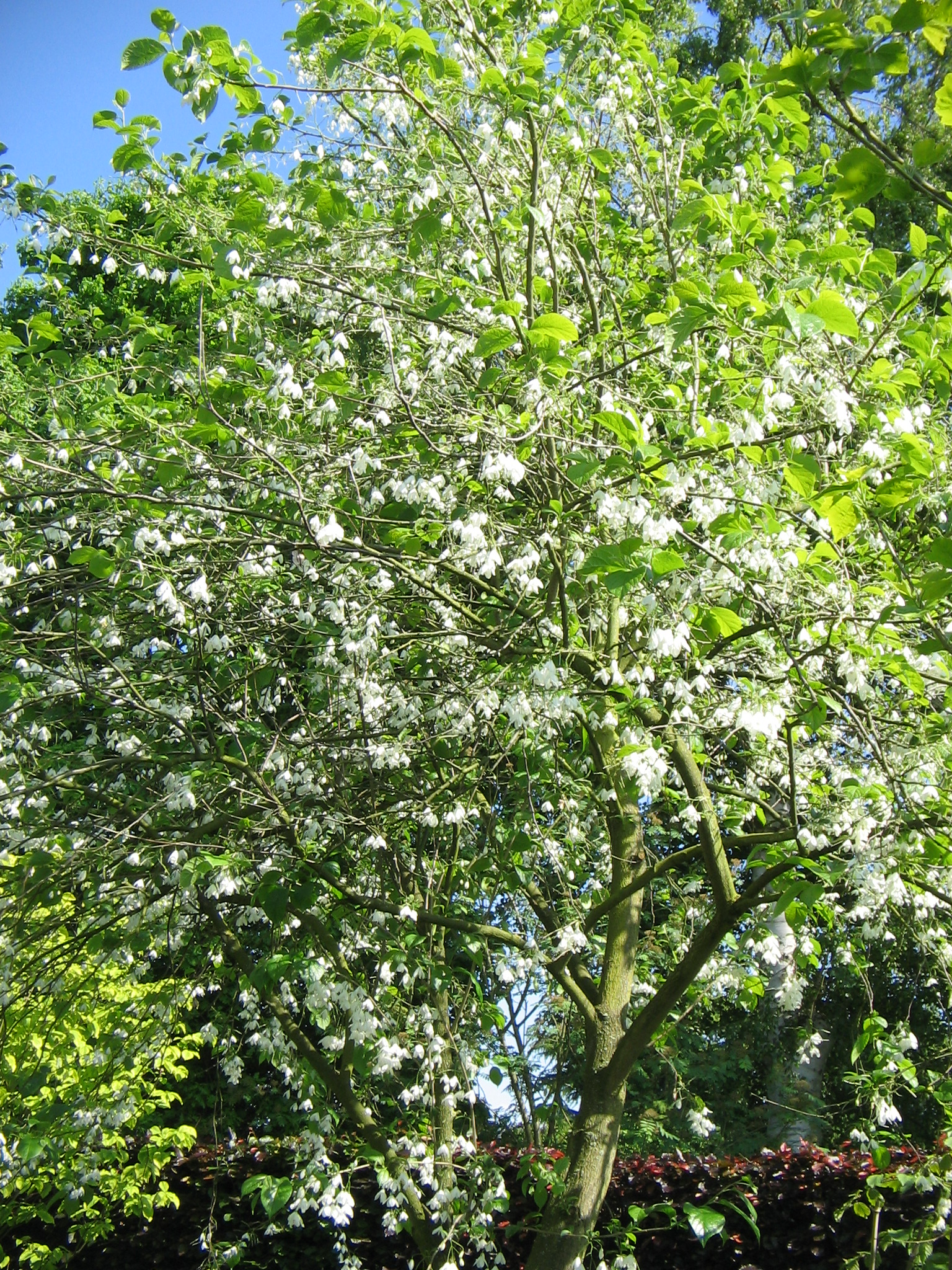 Halesia carolina